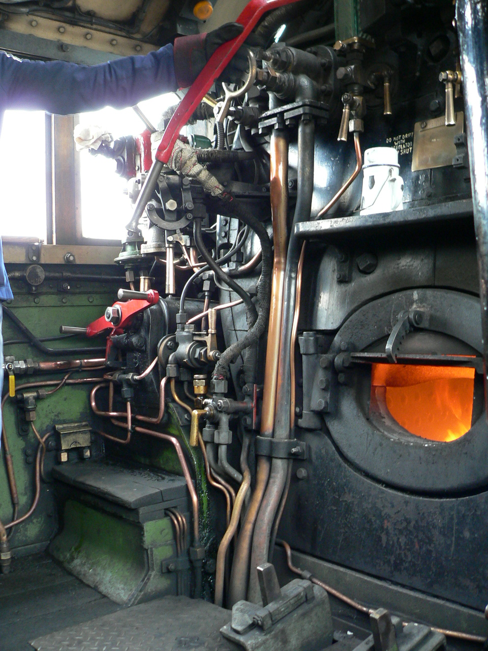 The footplate of LNER B1 4-6-0 locomotive 61264.